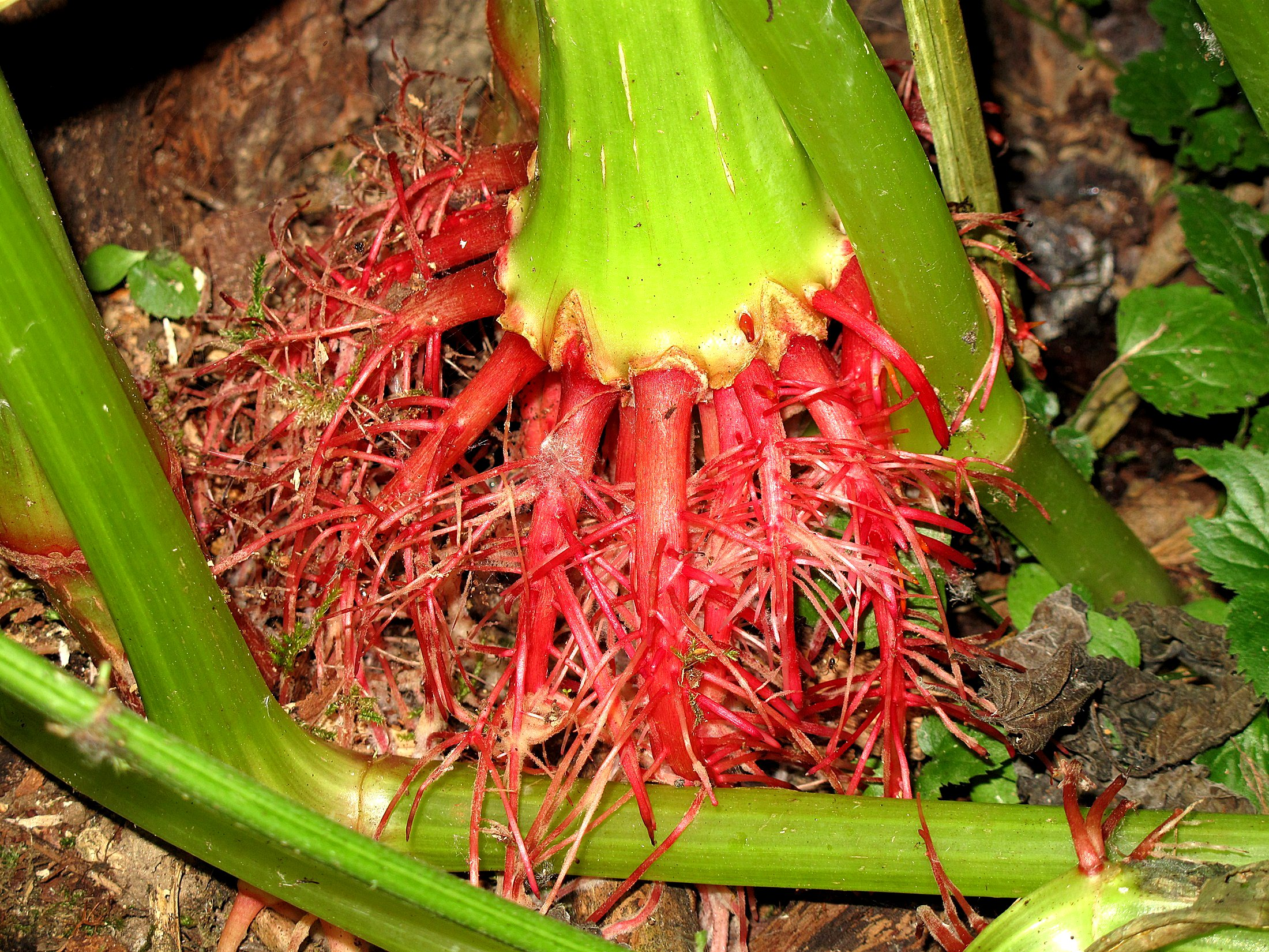 roots of Impatiens glandulifera